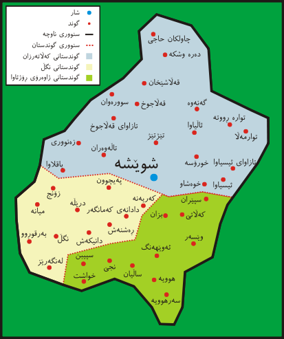 Kalatarzan map (A region in the county of Sna (Sanandaj), west of Iran)